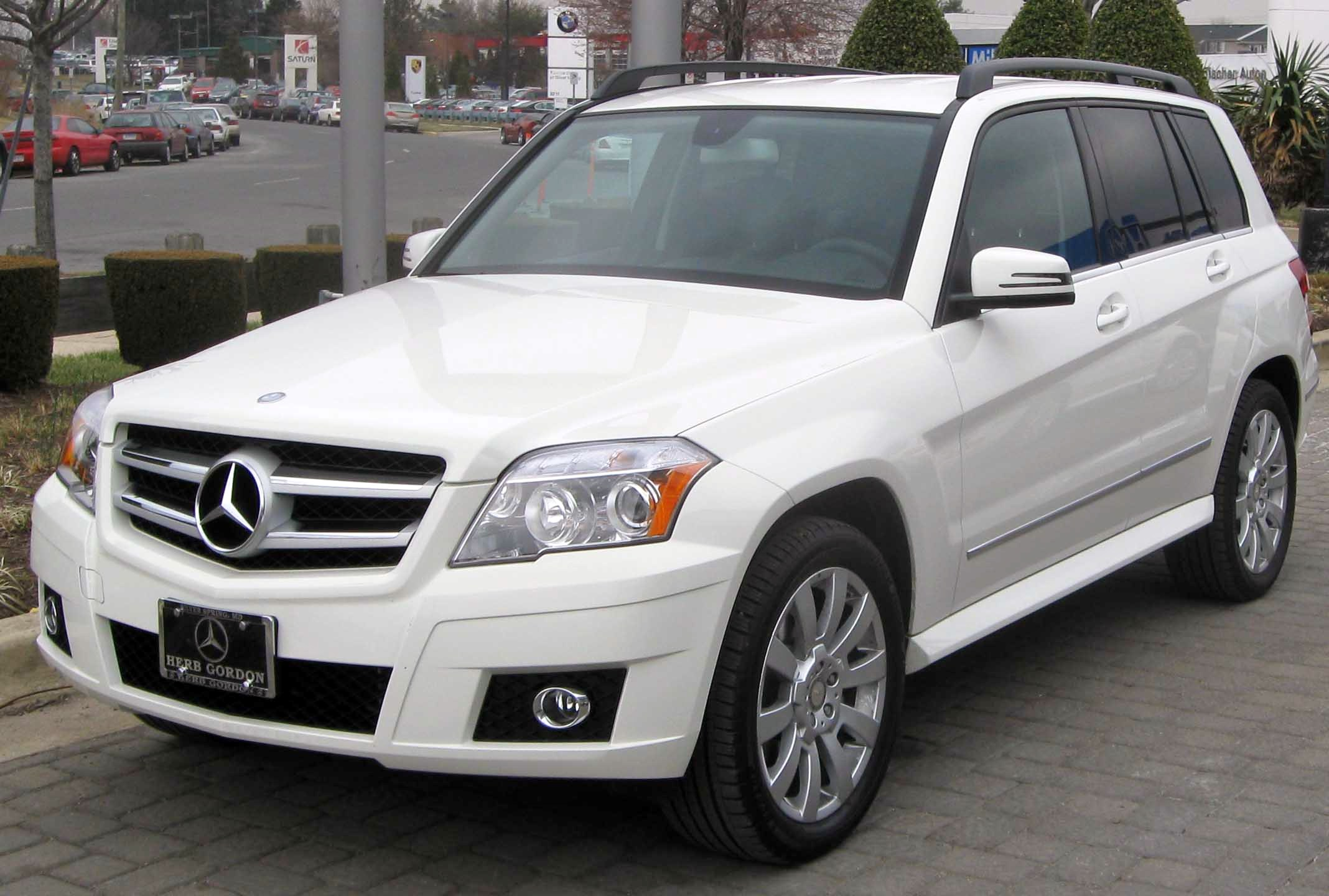 2010 Mercedes-Benz GLK350 photographed in Silver Spring, Maryland, USA.